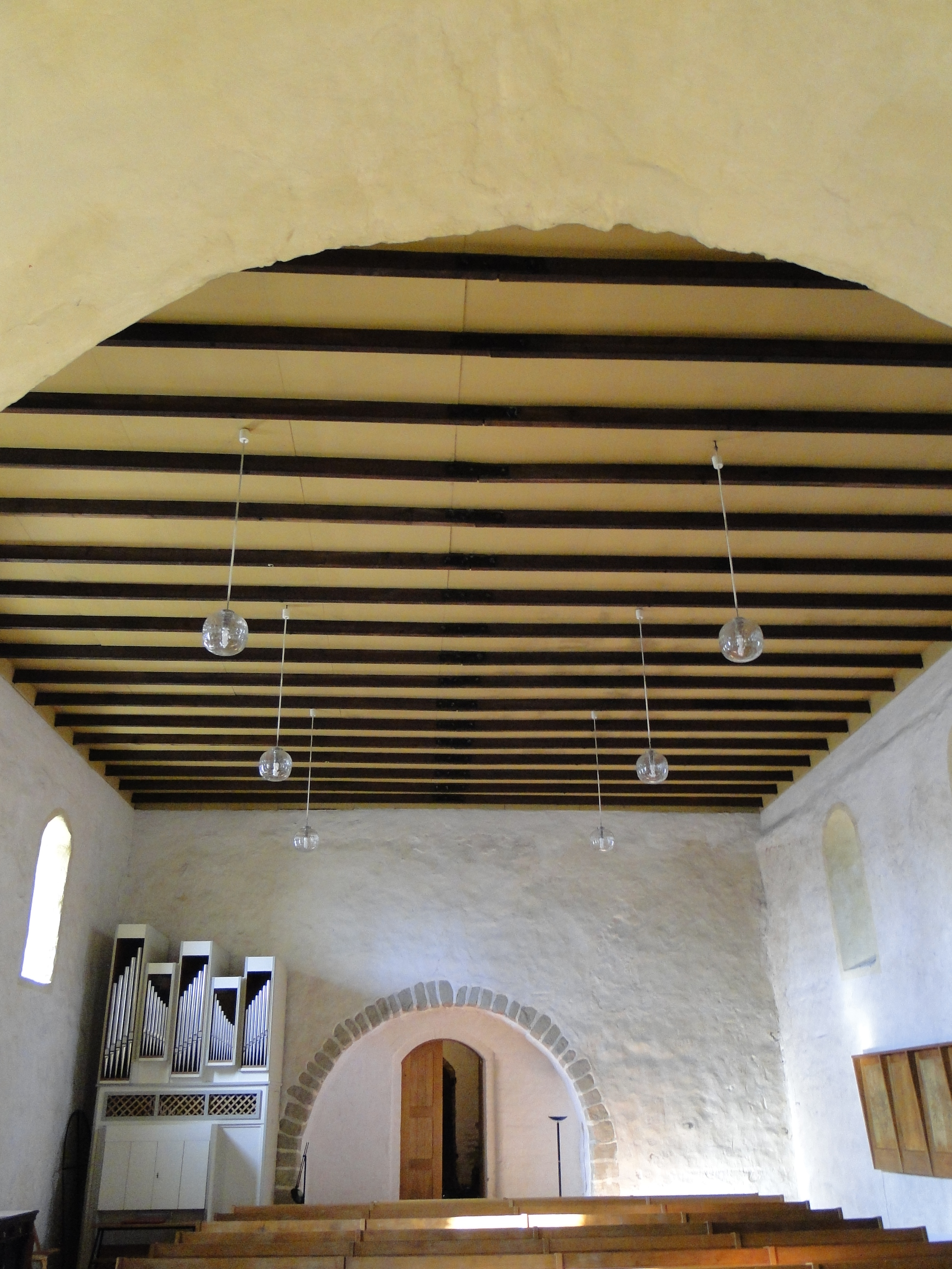 Church in Benthen, district Ludwigslust-Parchim, Mecklenburg-Vorpommern, Germany